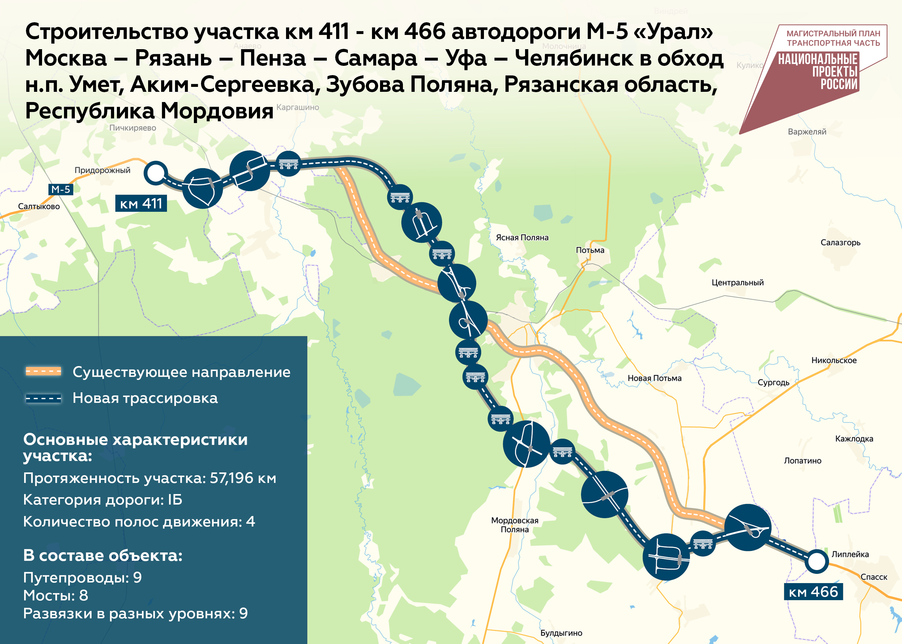 Construction of a transport bypass as part of the M-7 highway in Mordovia and the Ryazan region